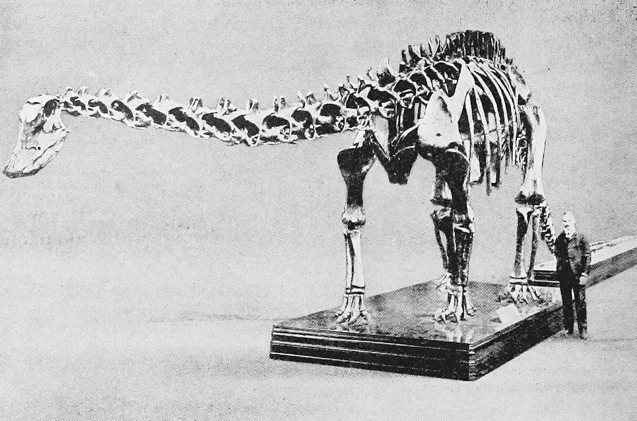 Scan from book "A Short History of the World"